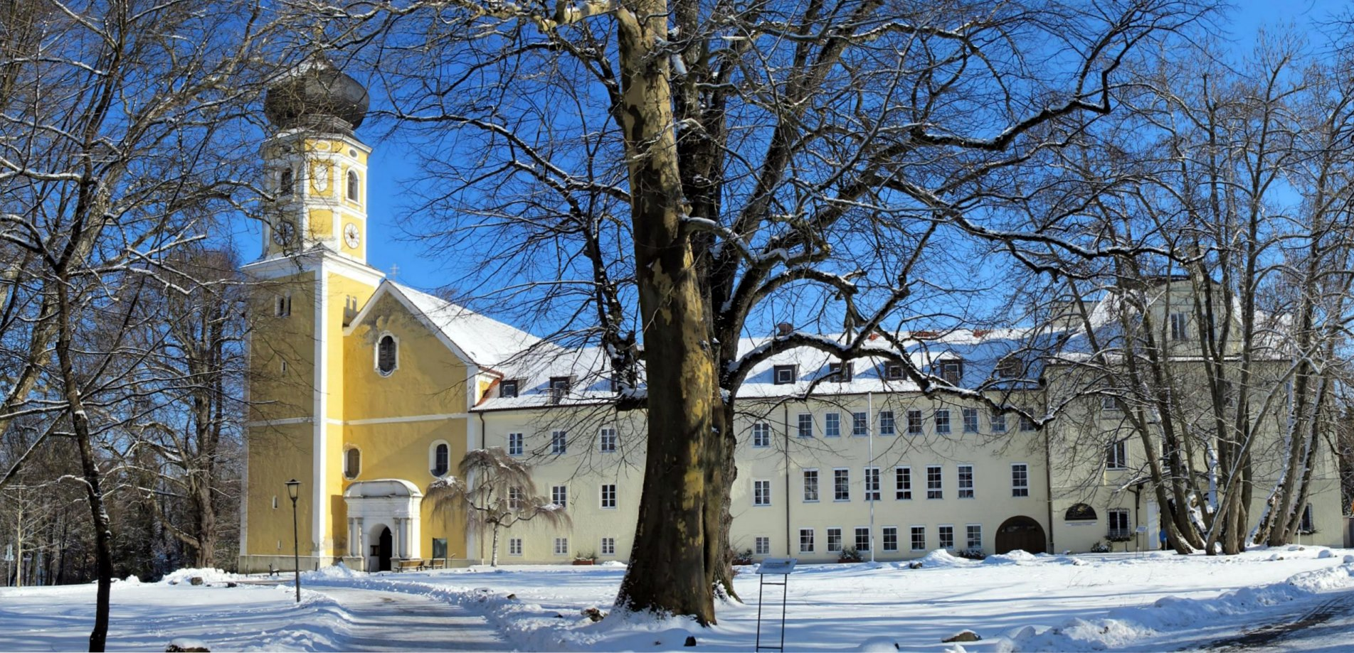 monastery yard, church St. Martin